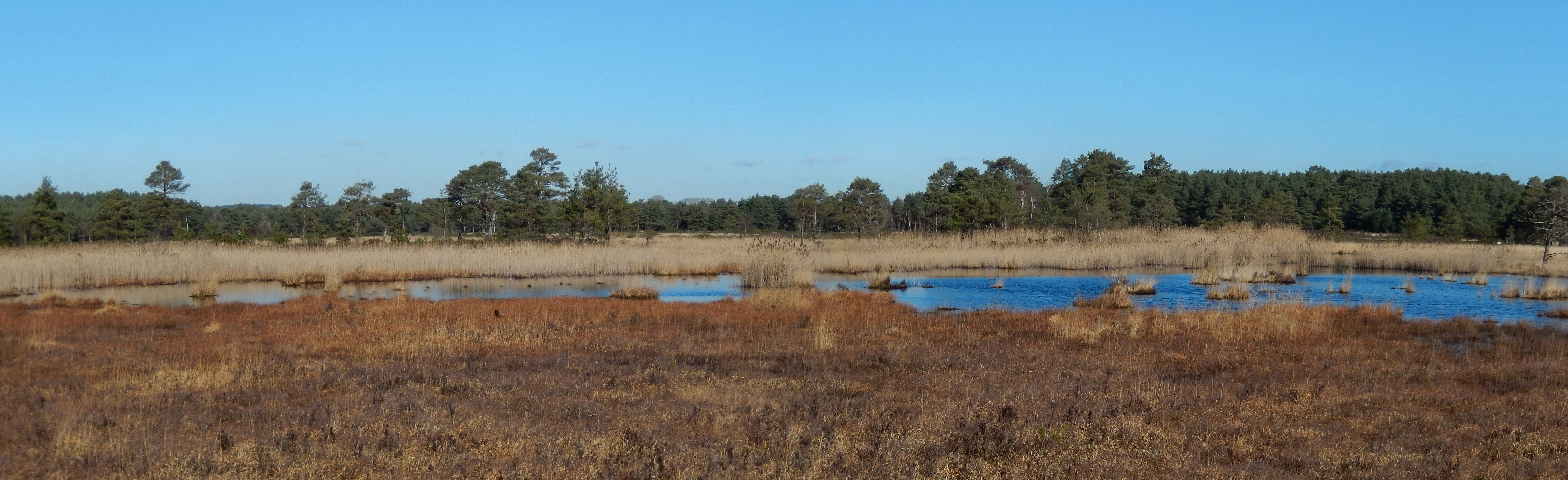 Panorama of Thursley Common, looking over the bog pools in wintertime